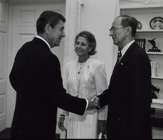 Ronald Reagan in Oval Office in 1982 with George W. Landau, departing ambassador to Venezuela and wife Maria